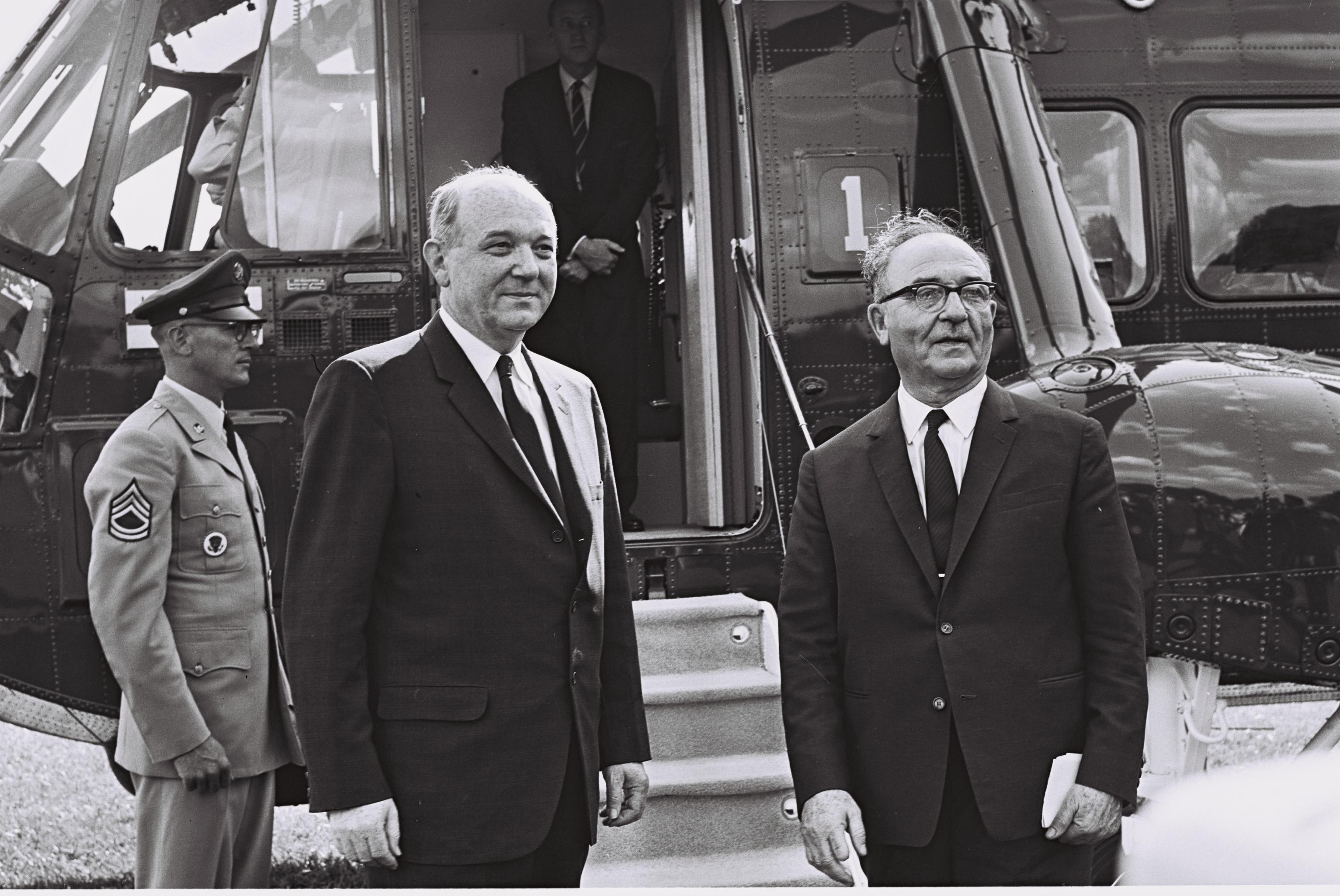 P.M. LEVY ESHKOL AND SECRETARY OF STATE DEAN RUSK BEFORE THE P.M.'S DEPARTURE BY HELICOPTER FROM WASHINGTON TO NEW YORK.